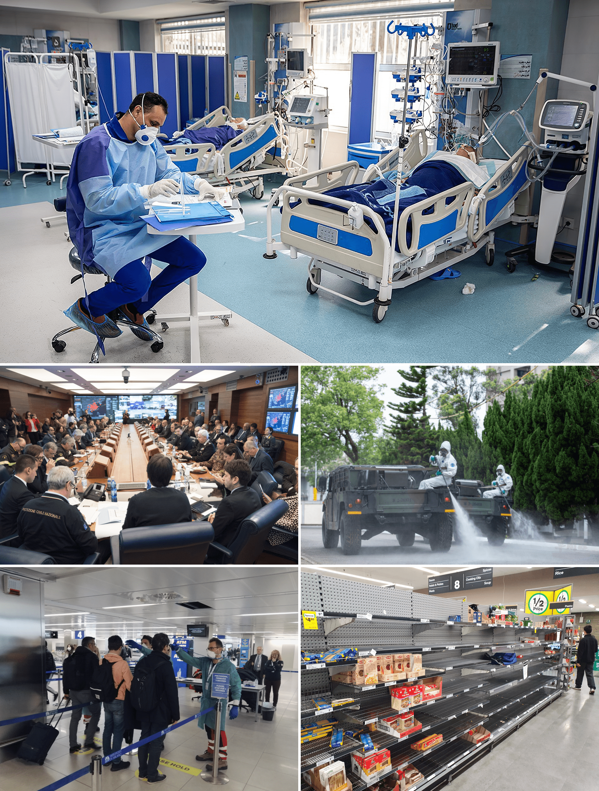 Pandemic photomontage COVID-19